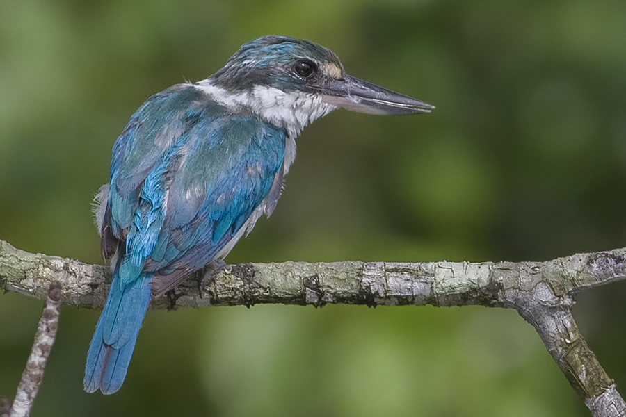 The species shown here is a Collared Kingfisher (Juvenile T.c.humii) photographed at Sundarbans National Park, West Bengal, India on 23.08.2014.